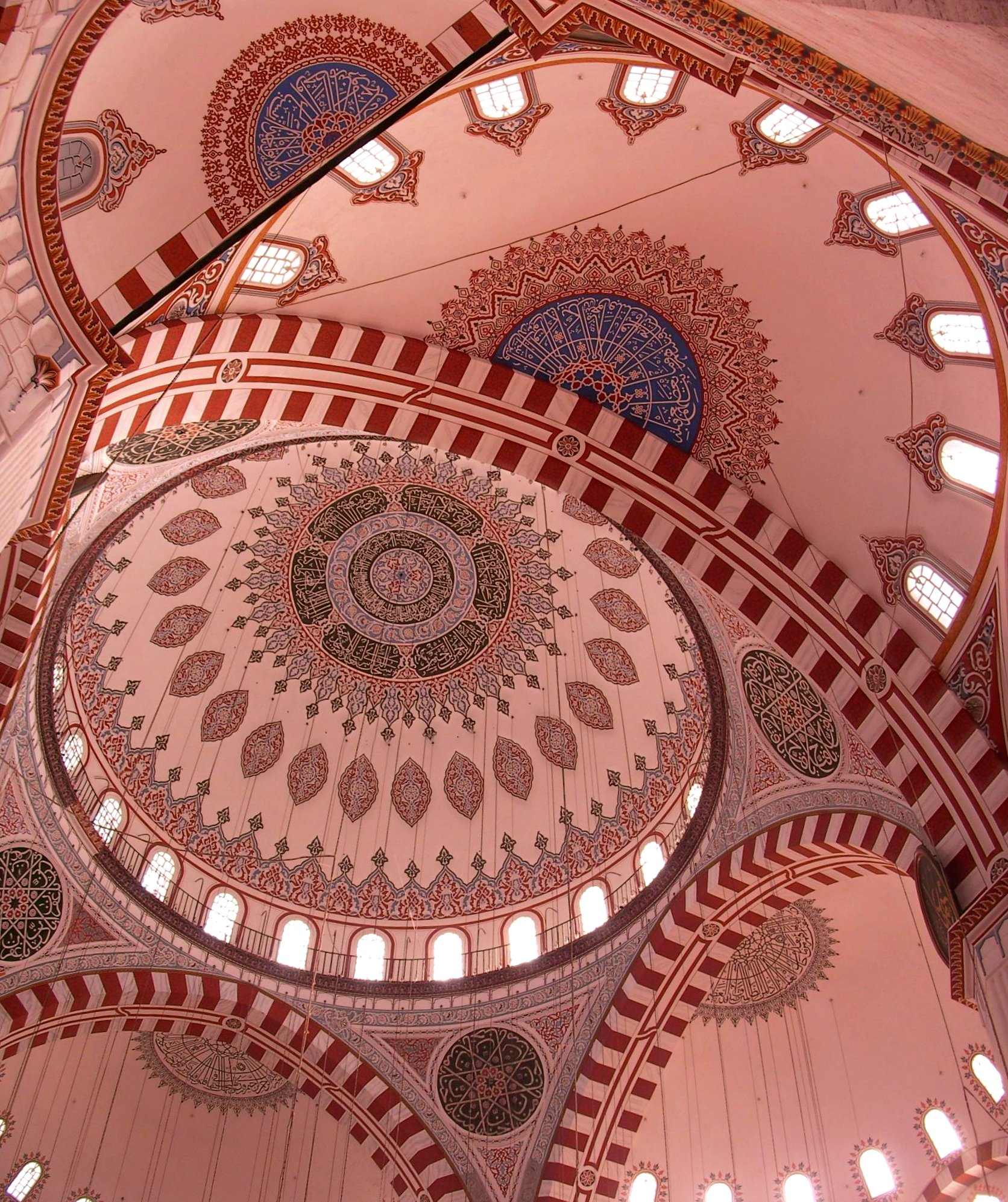 interior view of the sehzadebasi mosque